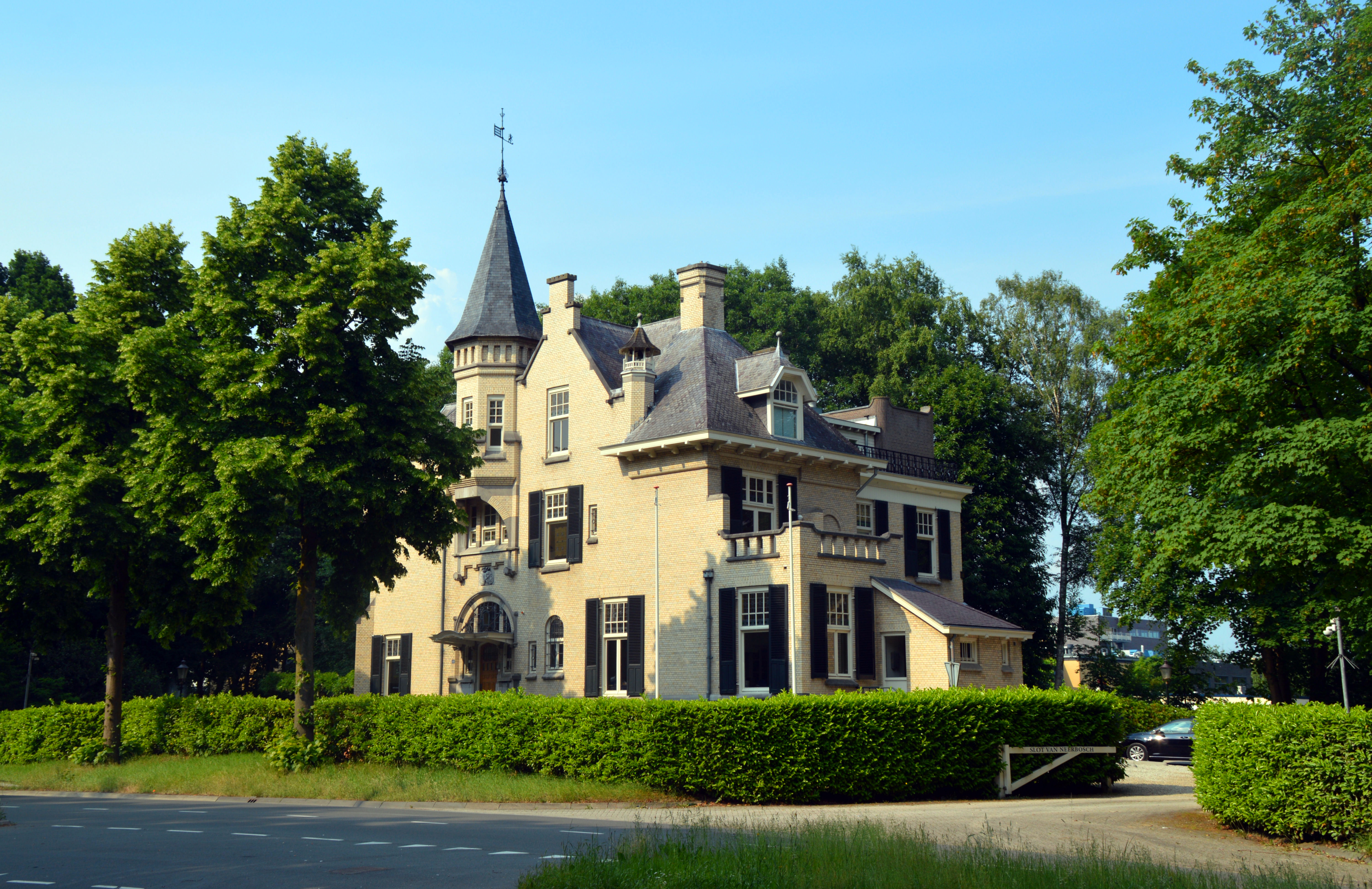 Villa Het Slotje Esquire E.F.M. van Rijckevorsel van Kessel. 1908 Neerbosch Nijmegen